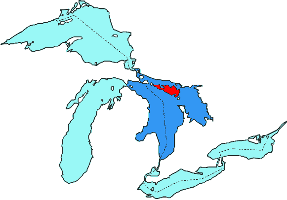 Position of Manitoulin Island in Lake Huron, highlighted in red